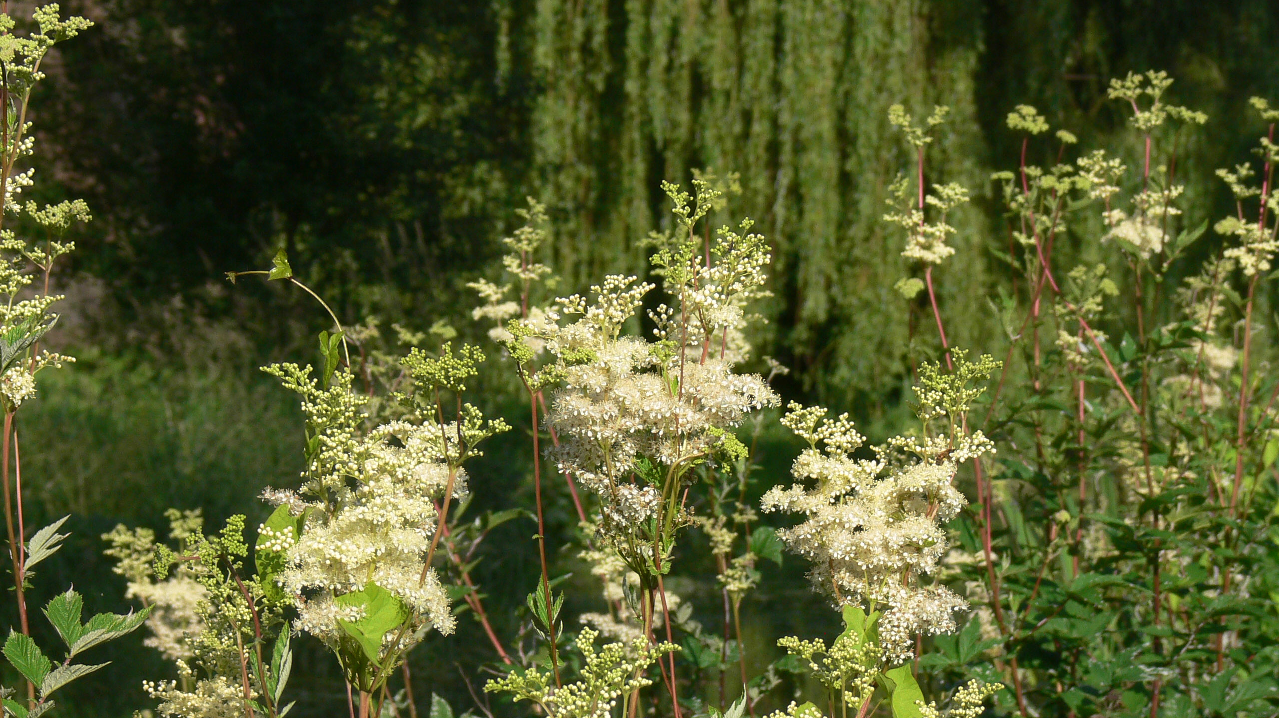 Filipendula ulmaria (north of france)